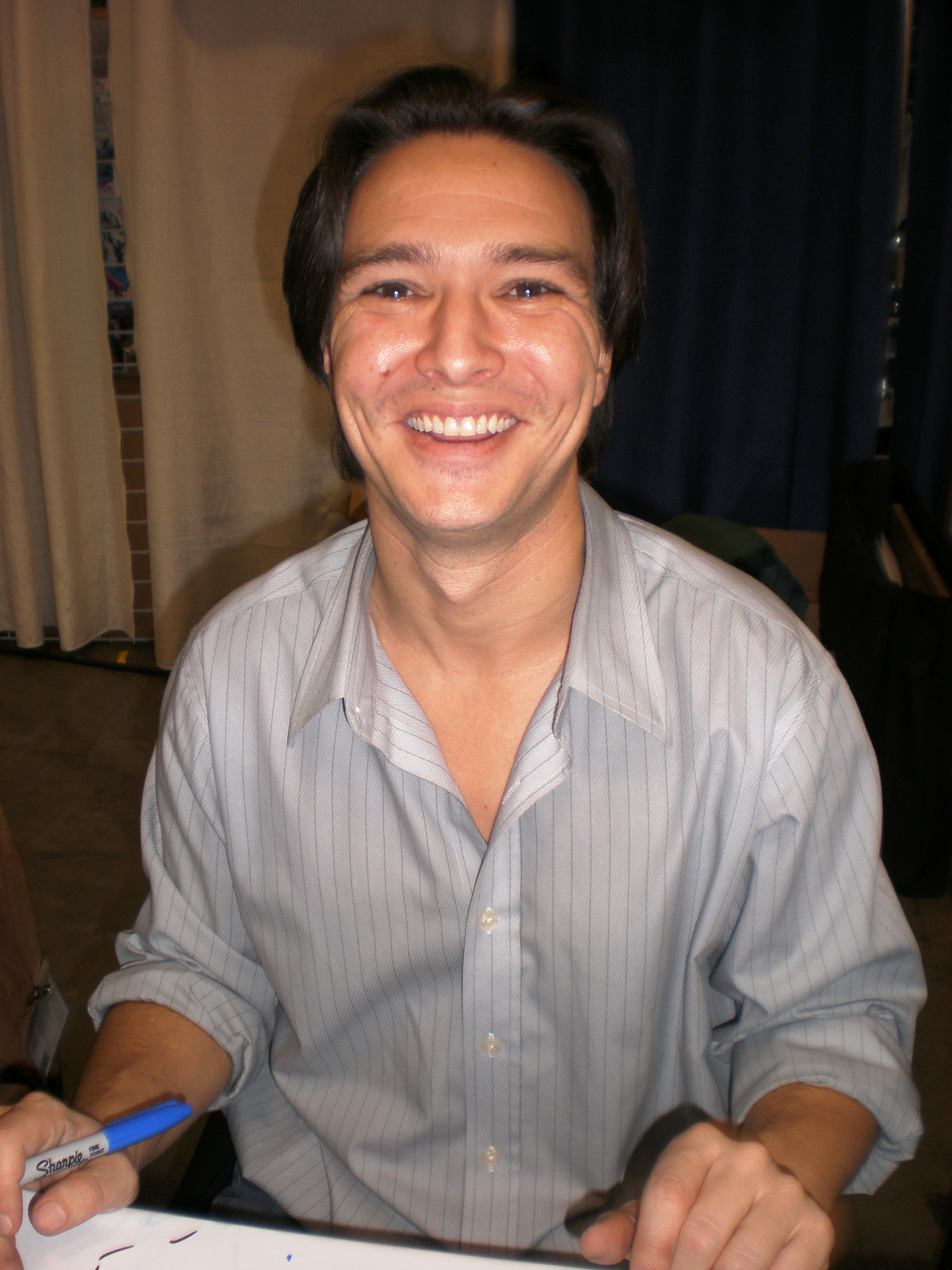 Justin Whalin at a promotional signing for Super Capers at WonderCon 2009.